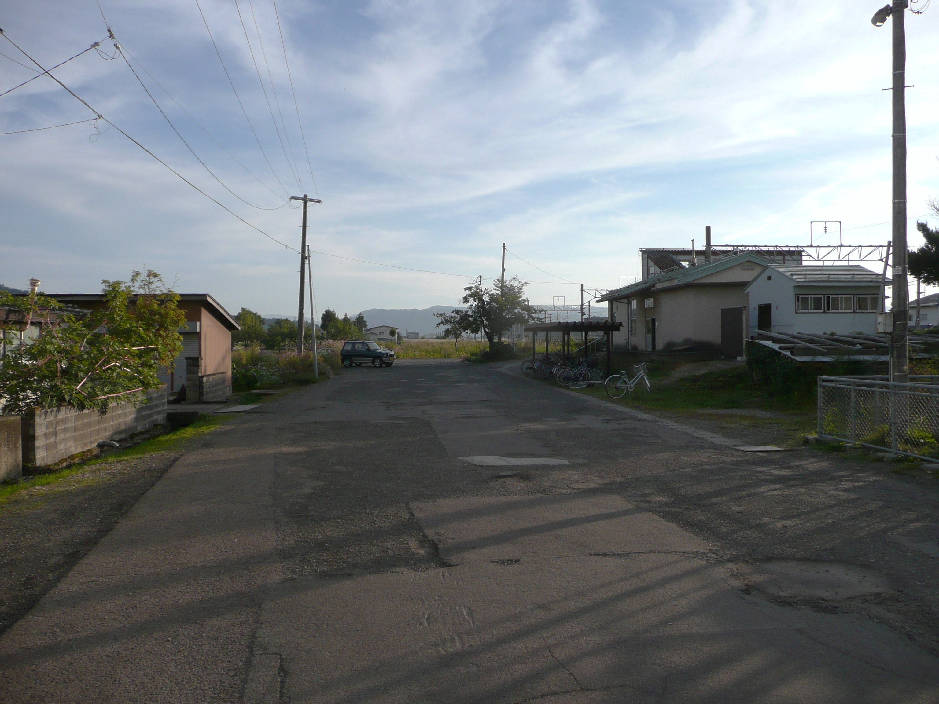 下湯沢駅前